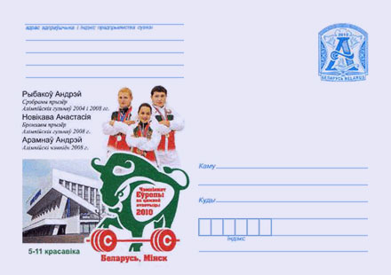 Postal stationery. Pre-Stamped Envelope of Belarus. Stamp - Letter "A" (inland rate), blue. Illustration - 2010 European Weightlifting Championships. Belarus, Minsk, 5-11 April - on Belarusian language, Logotype of Championships - stylized Wisent, Palace of Sport in Minsk, portraits of Andrei Rybakou, Nastassia Novikava, Andrei Aramnau. Size - 162*114 mm. Designer - E. Medved. Order number - 40к-2010. Print quantity - 80000.